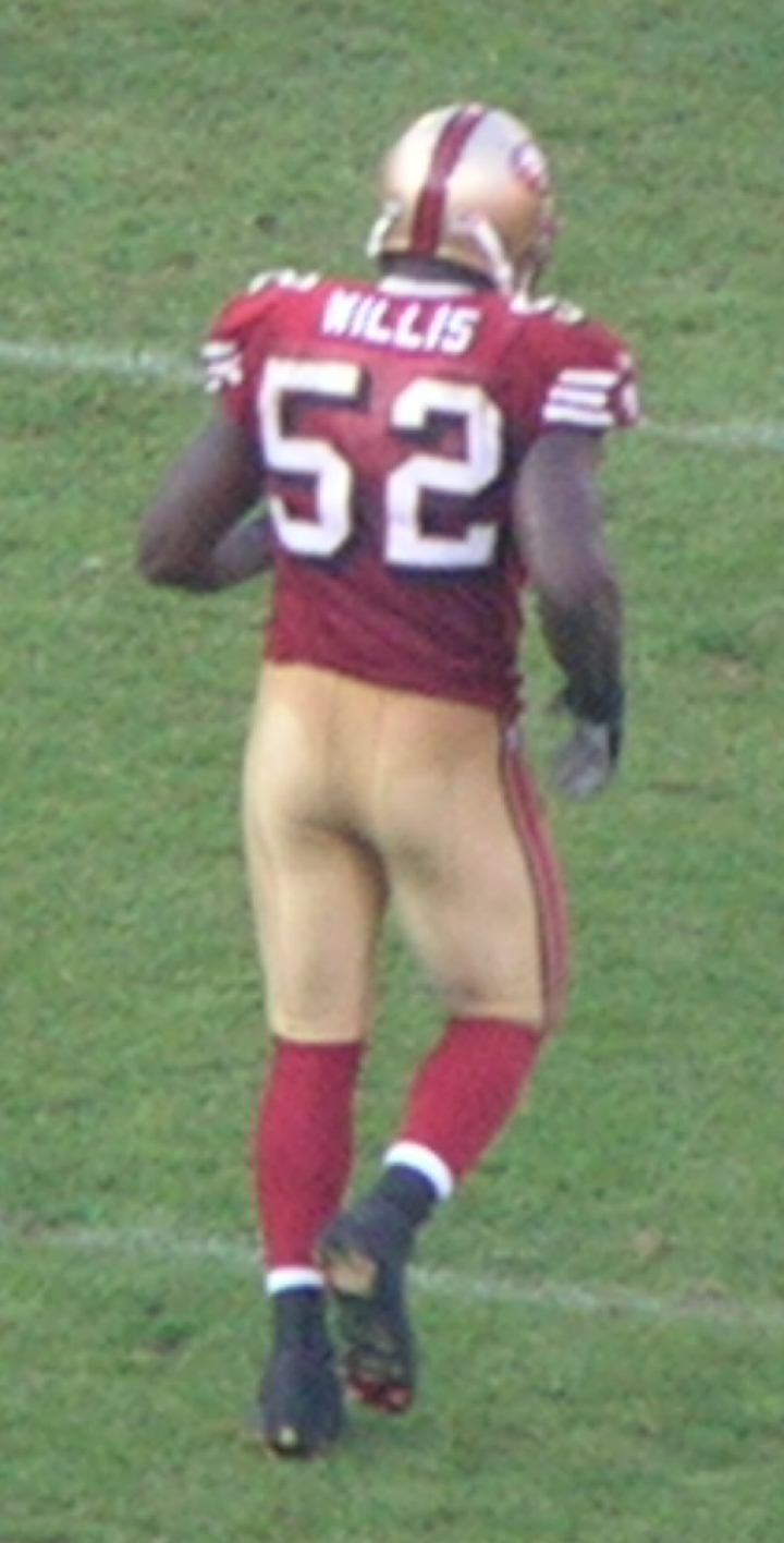 San Francisco 49ers linebacker Patrick Willis at a regular season game against the St. Louis Rams. The 49ers won 35-16.